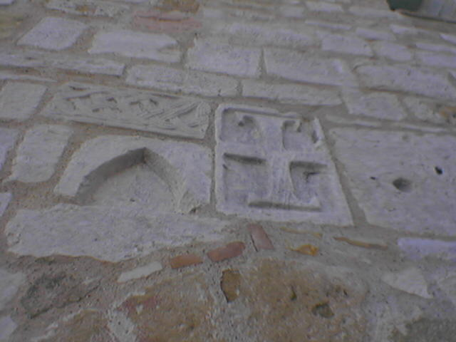 Poggio